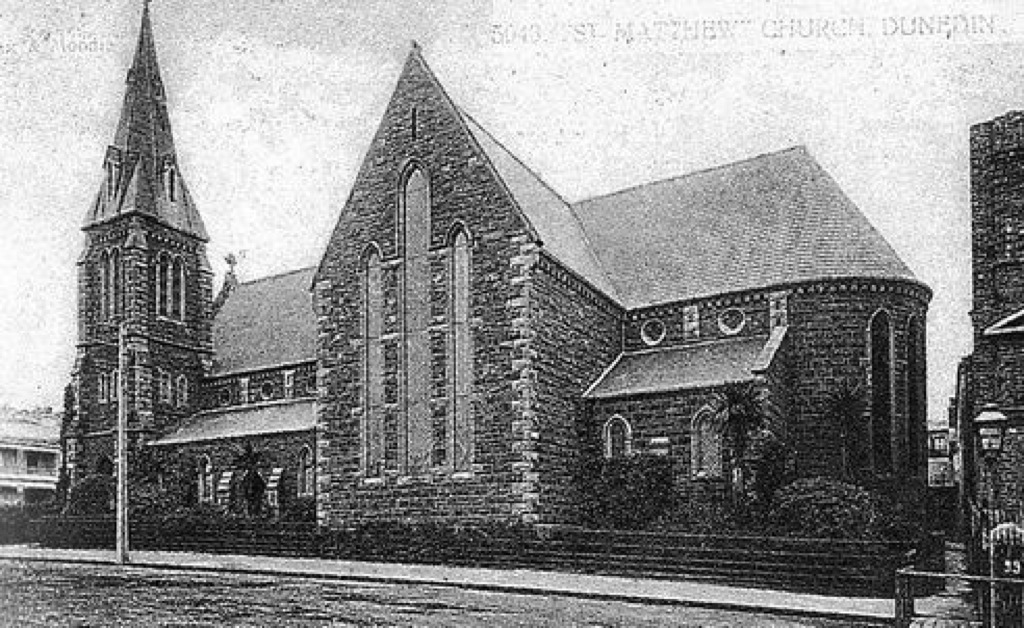 Old photograph